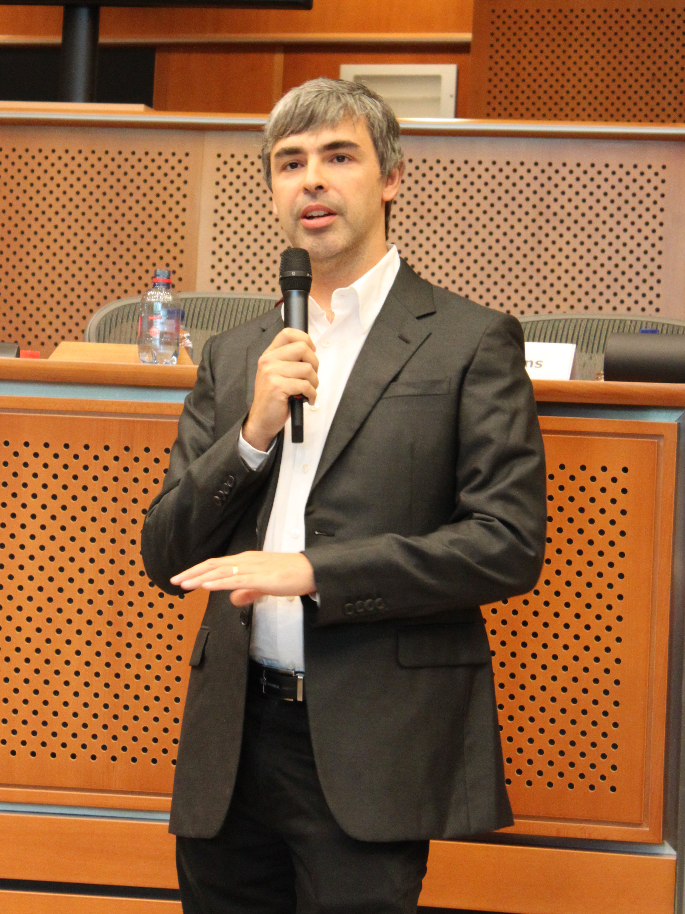 Larry Page, co-founder of Google, in the European Parliament on 17.06.2009